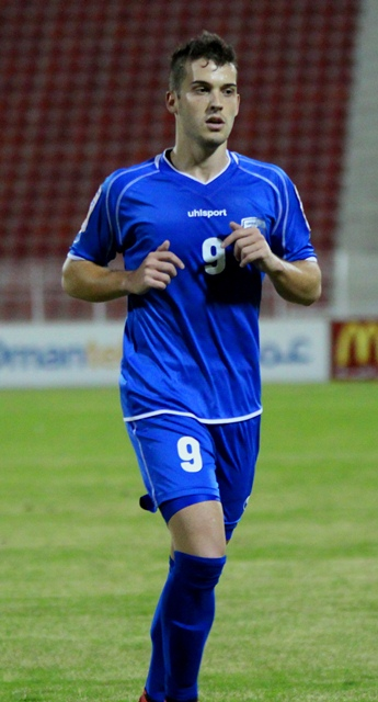 Vitor Huvos at the Bowsher Sports Complex in a match against Bowsher Club. 19 September 2014 Bowsher Sports Complex, Bowsher Muscat Photographer email id